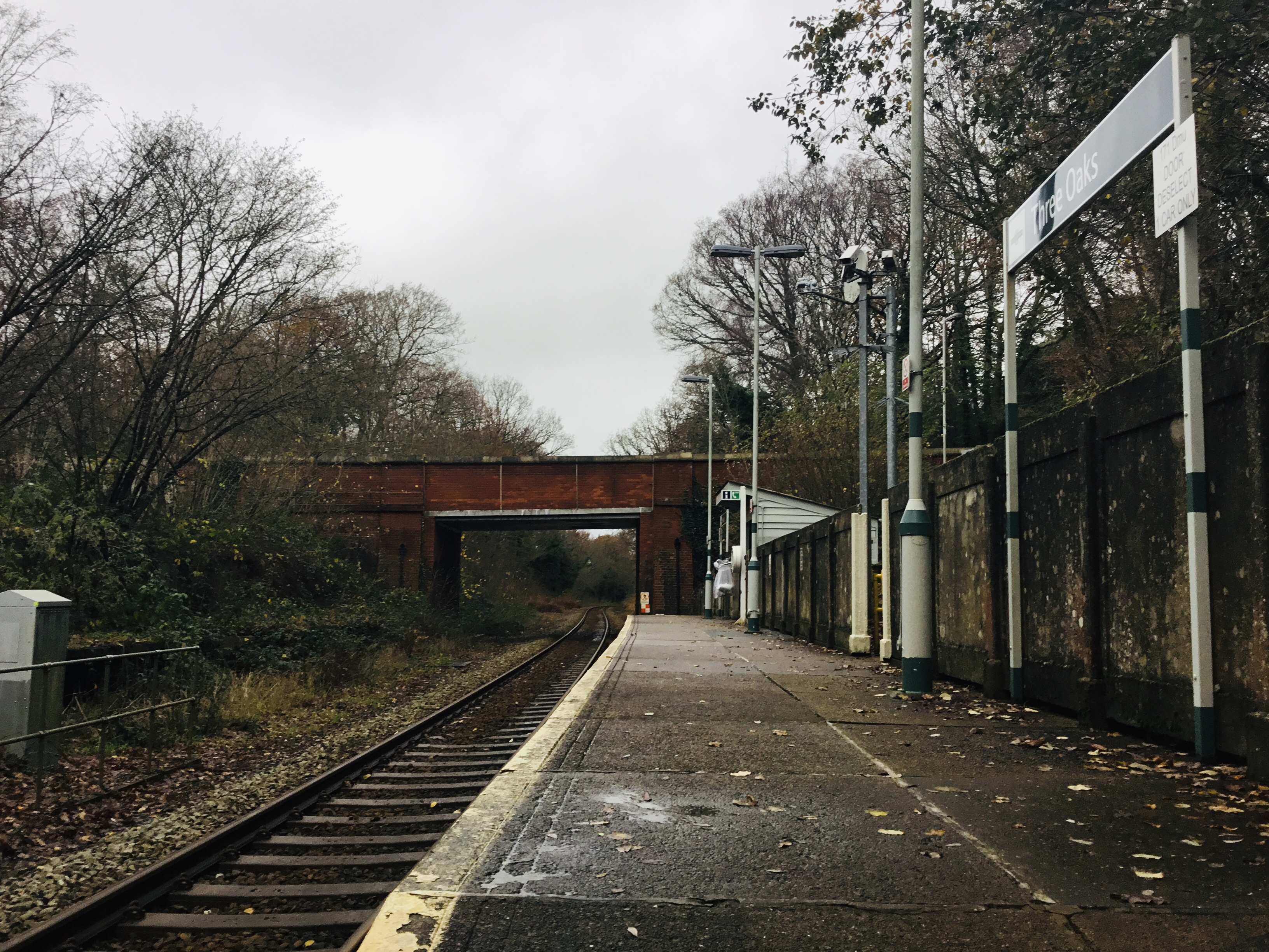 The platform at Three Oaks railway station, looking north towards Ashford.